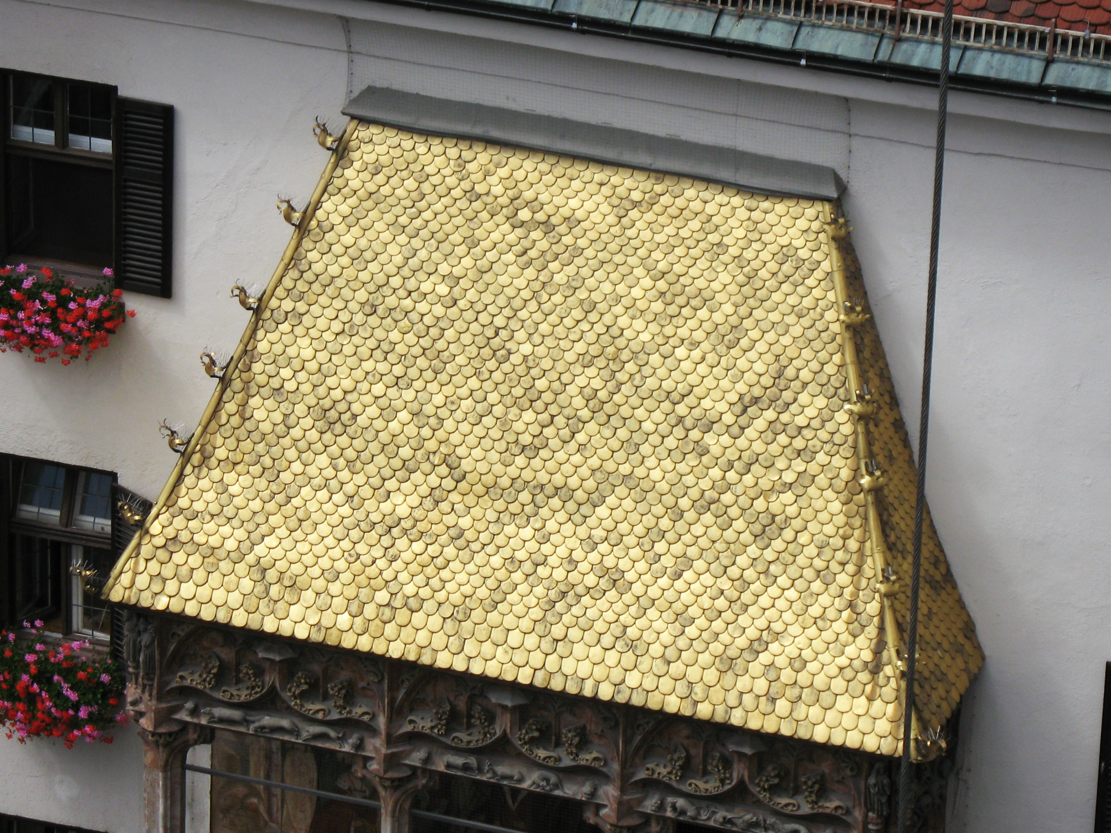 Golden Roof, Innsbruck, Austria